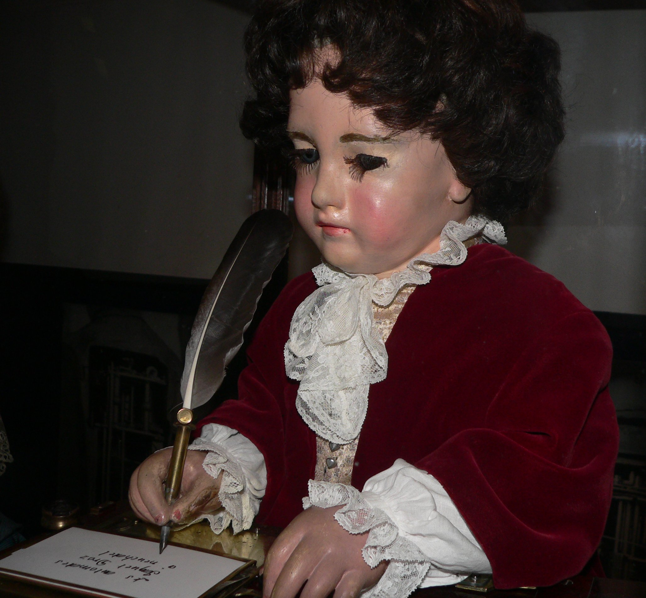 Jaquet-Droz automata, musée d'Art et d'Histoire de Neuchâtel